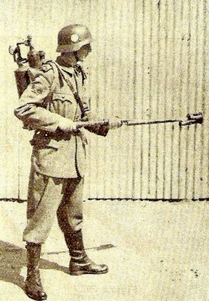 DGFM. Backpack-type flamethrower